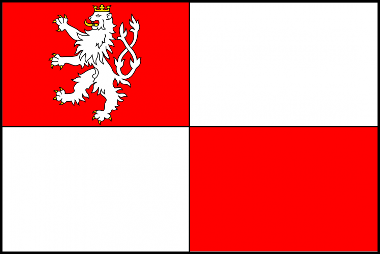 Municipal flag of Tachov town, Czech Republic. (valid from March 31, 2015)